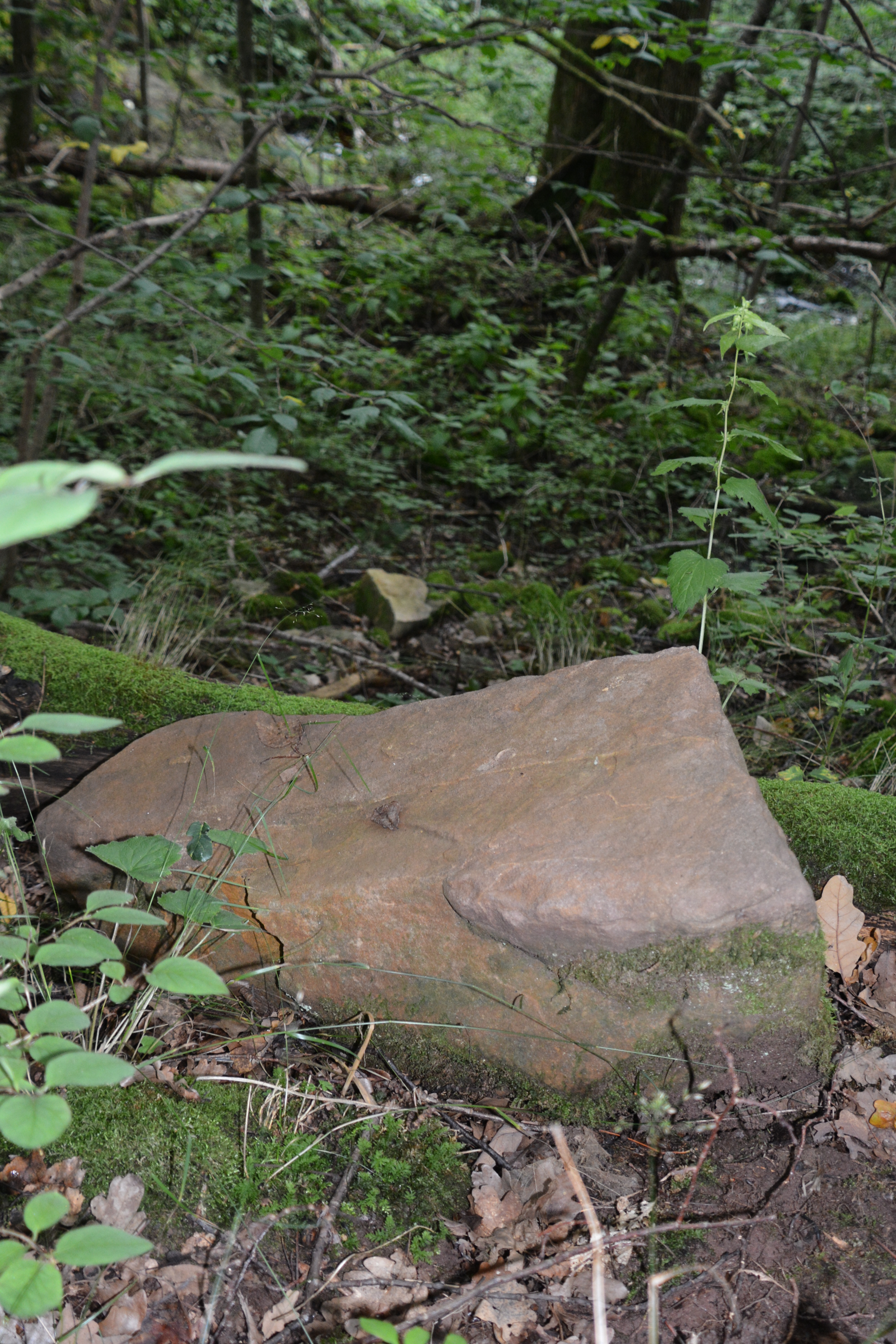 Grännasandsten, sandstone from Girabäcken, north of Gränna, Sweden. The sandstone is part of the Visingsö formation, a sedimentary formation.